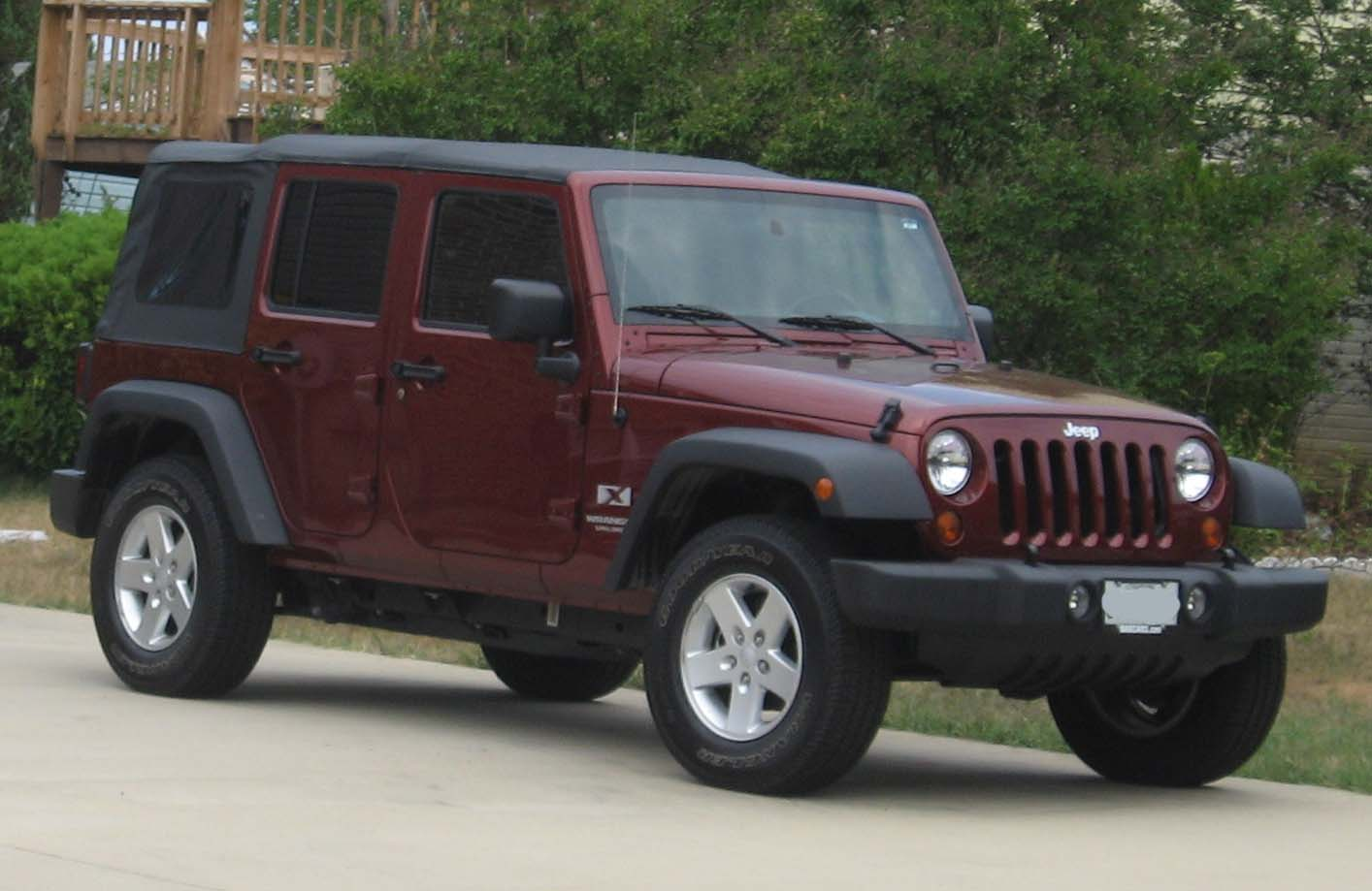 2007 Jeep Wrangler photographed in Fort Washington, Maryland, USA.